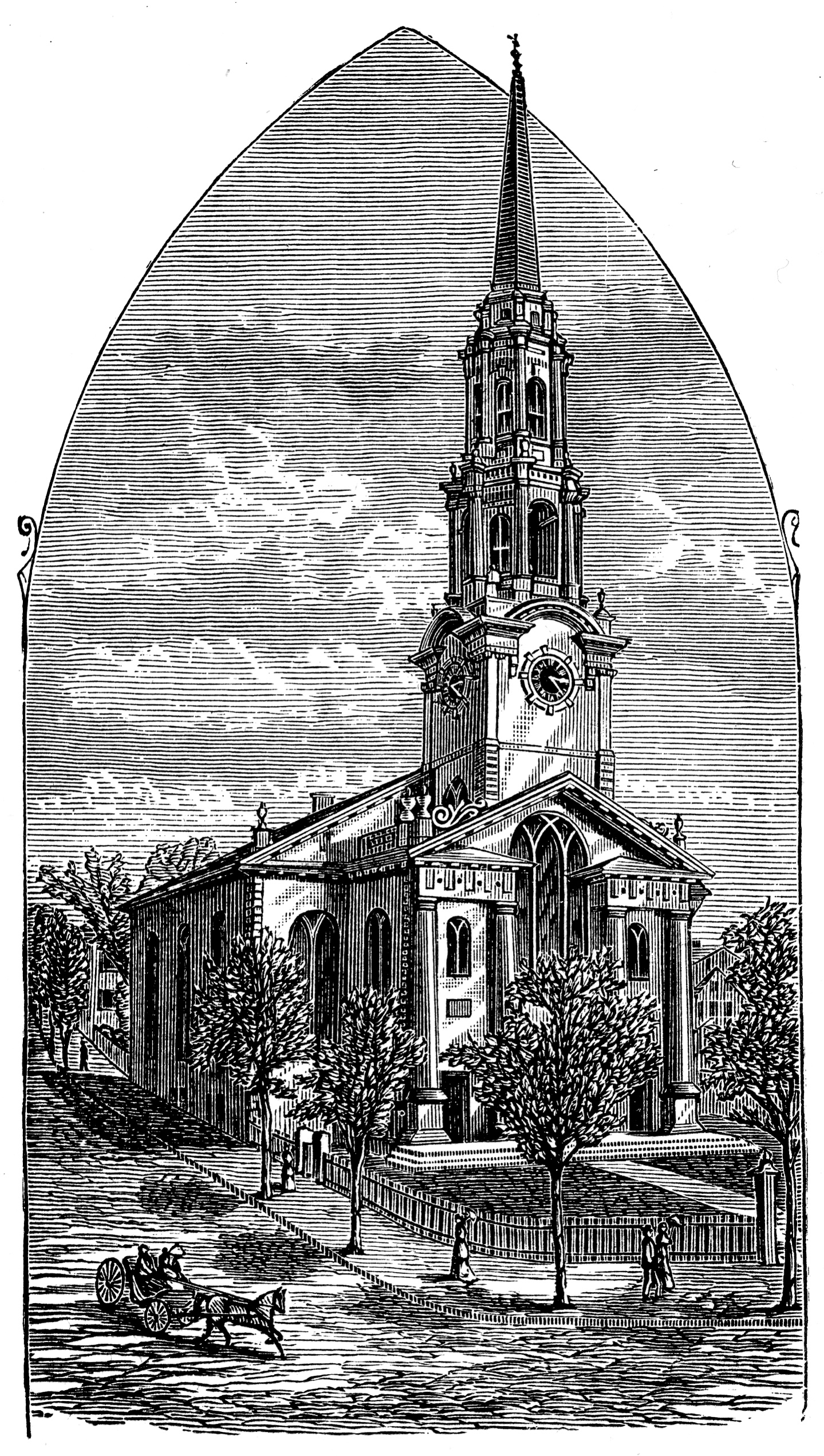 First Unitarian Church of Providence. Originally the First Congregational Church. Engraving from The Providence Plantations for 250 Years, Welcome Arnold Greene (1886).